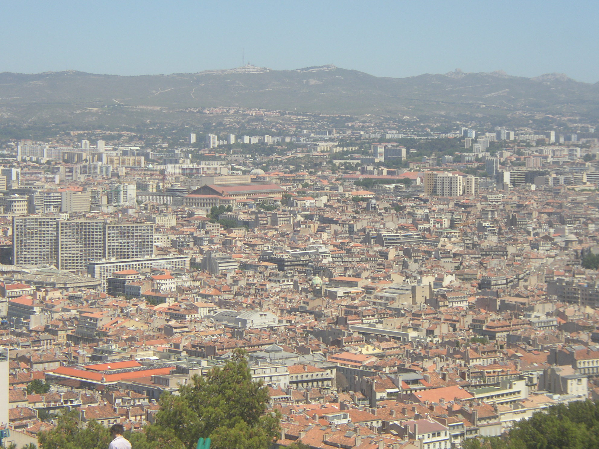 Panoramic sight of the city of Marseille (Bouches-du-Rhône) in France.